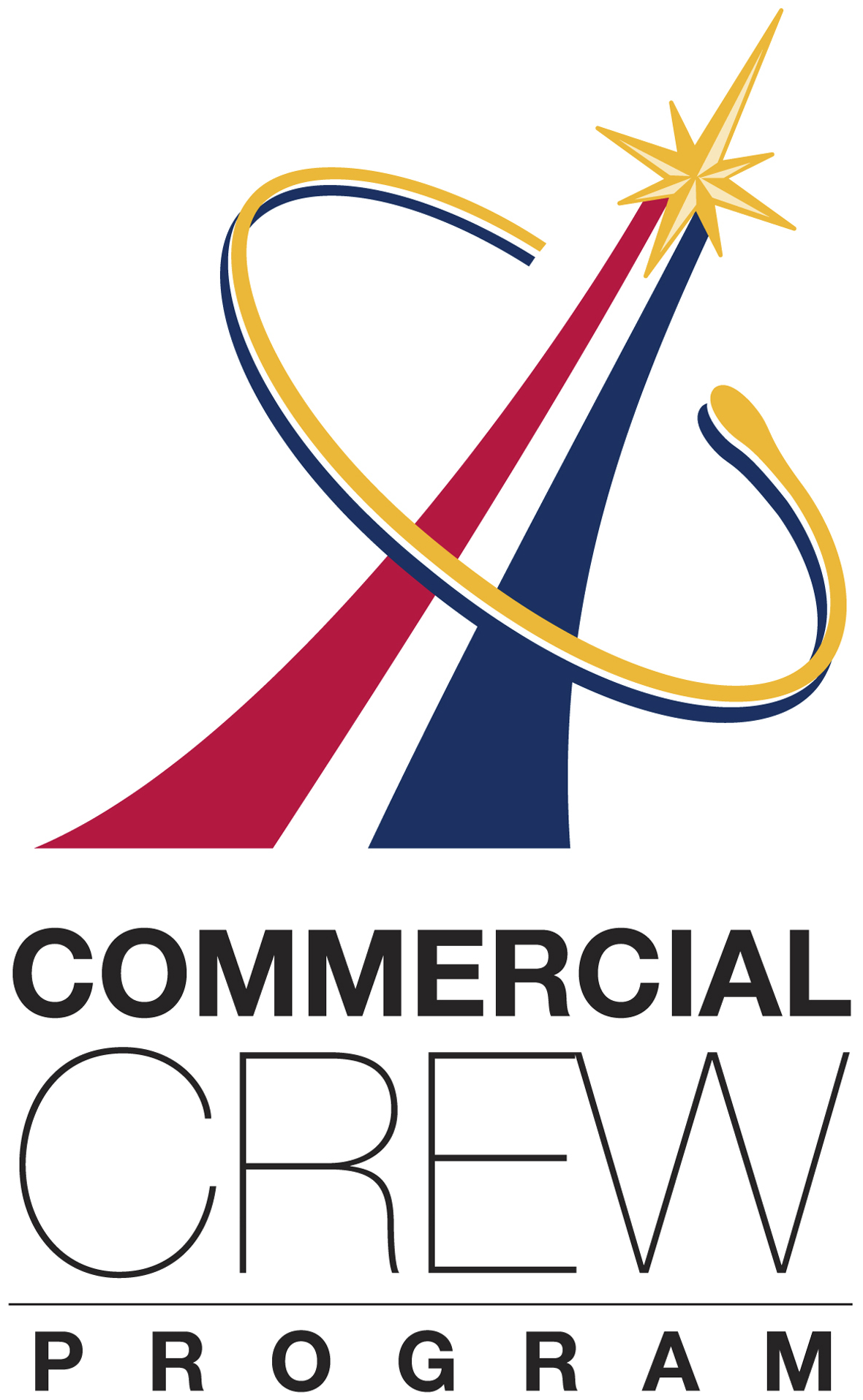 This is a printable poster with NASA's Commercial Crew Program (CCP) logo. CCP is leading NASA's effort of accelerating a United States-led capability to the International Space Station by investing in the design and development of the aerospace industry's crew transportation systems. The goal of CCP is to drive down the cost of space travel as well as open up space to more people than ever before by balancing industry’s own innovative capabilities with NASA's 50 years of human spaceflight experience. The CCP logo is derived from the NASA flight crew symbol as the foundation for the Program. The red/white/blue swoosh illustrates an American-led capability. The star depicts a future vehicle emerging from the overlapping double C’s representing the CCP.